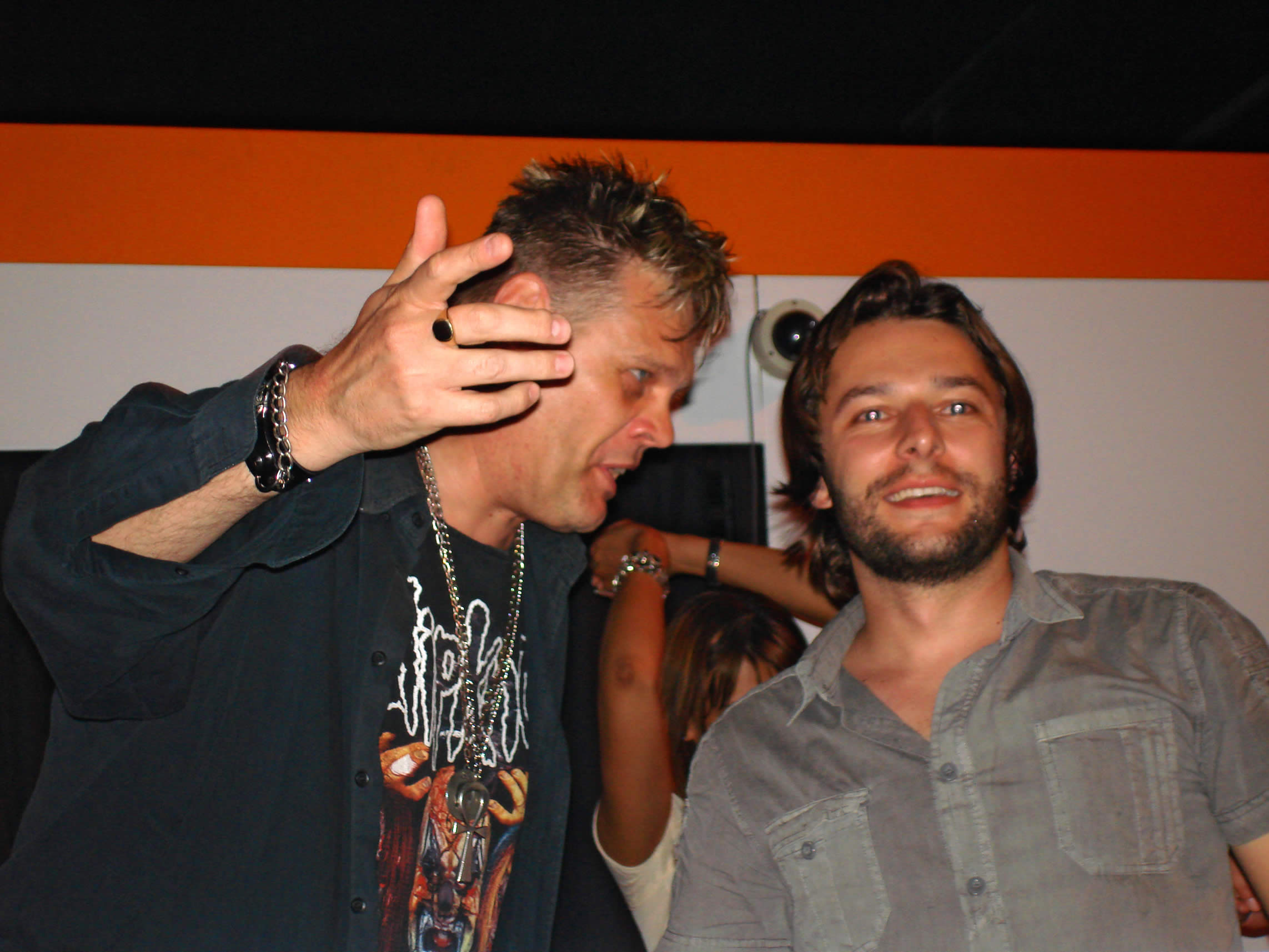 Barney Simon says something amusing to 5fm's Roger Goode.